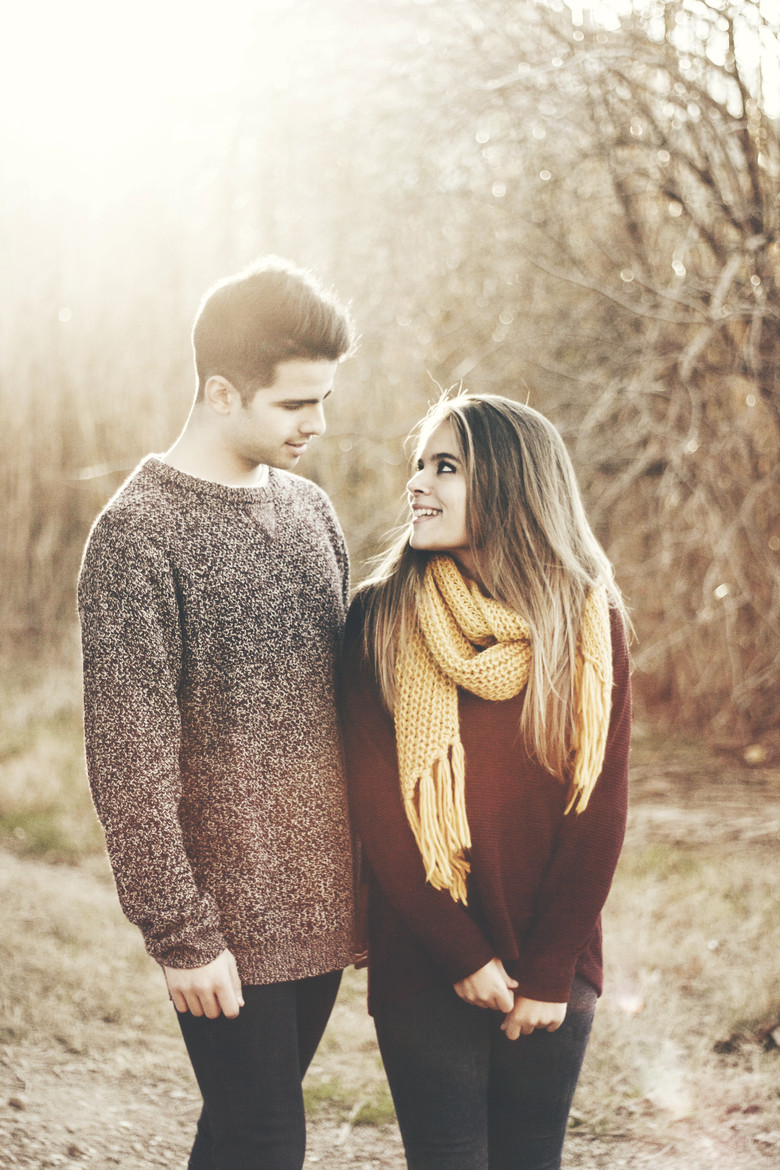 A young man courting a girl